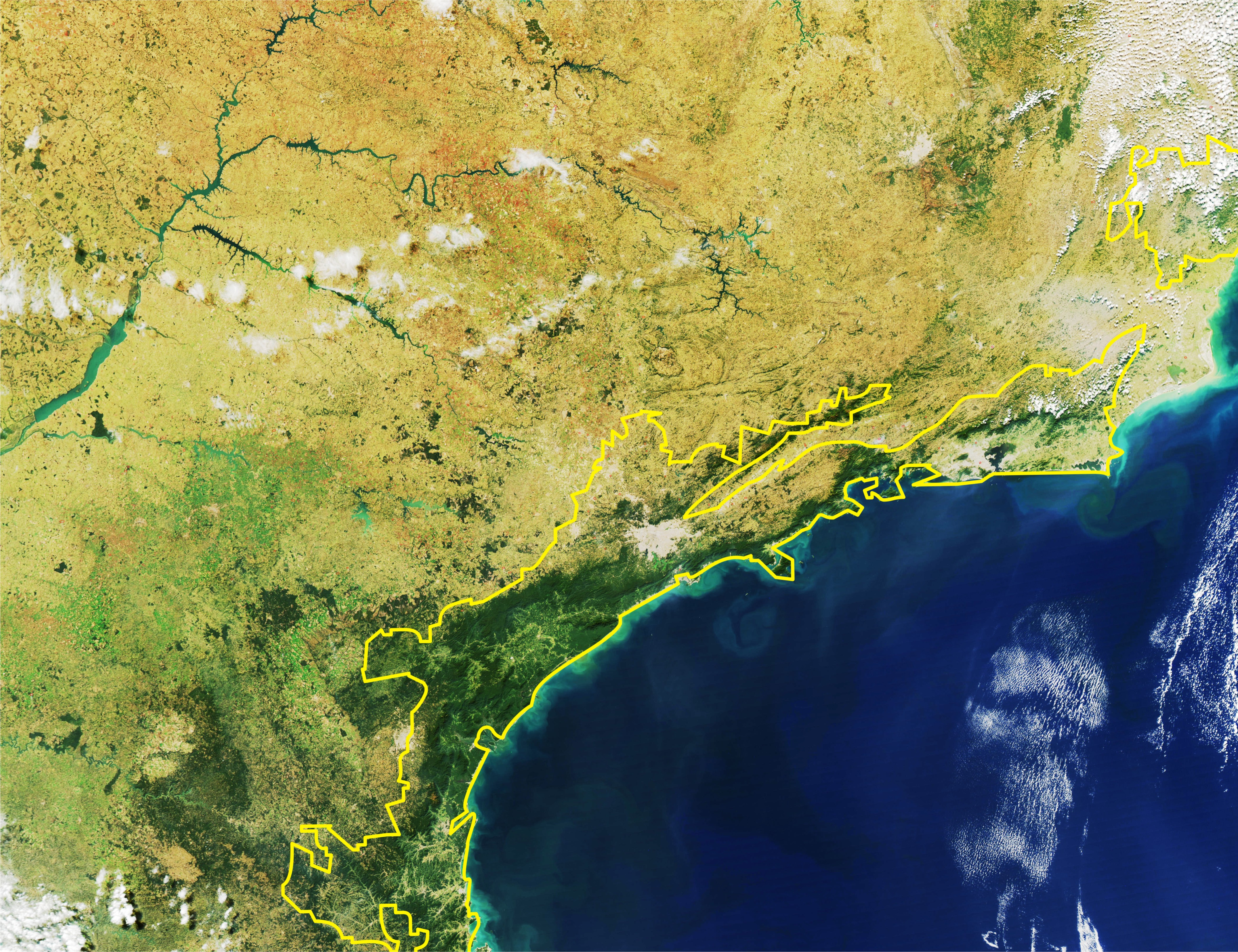 Serra do Mar coastal forests ecoregion — of the Atlantic Forest biome. The yellow line encloses Serra do Mar Atlantic forest as delineated by the World Wide Fund for Nature. "I, Miguelrangeljr, made it using NASA Blue Marble imagery."